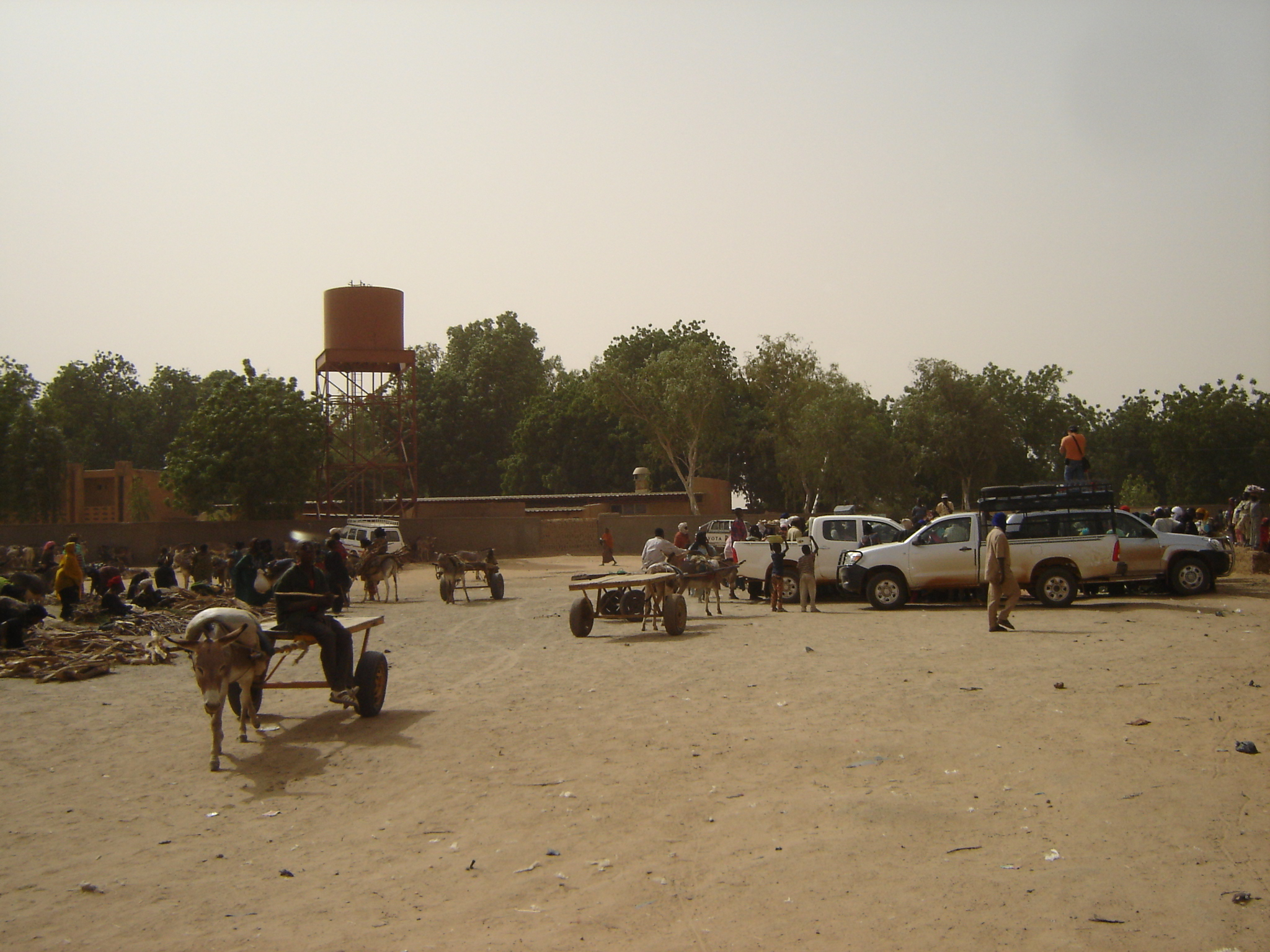 Getting ready for our eye disease prevention teaching in the middle of the town.